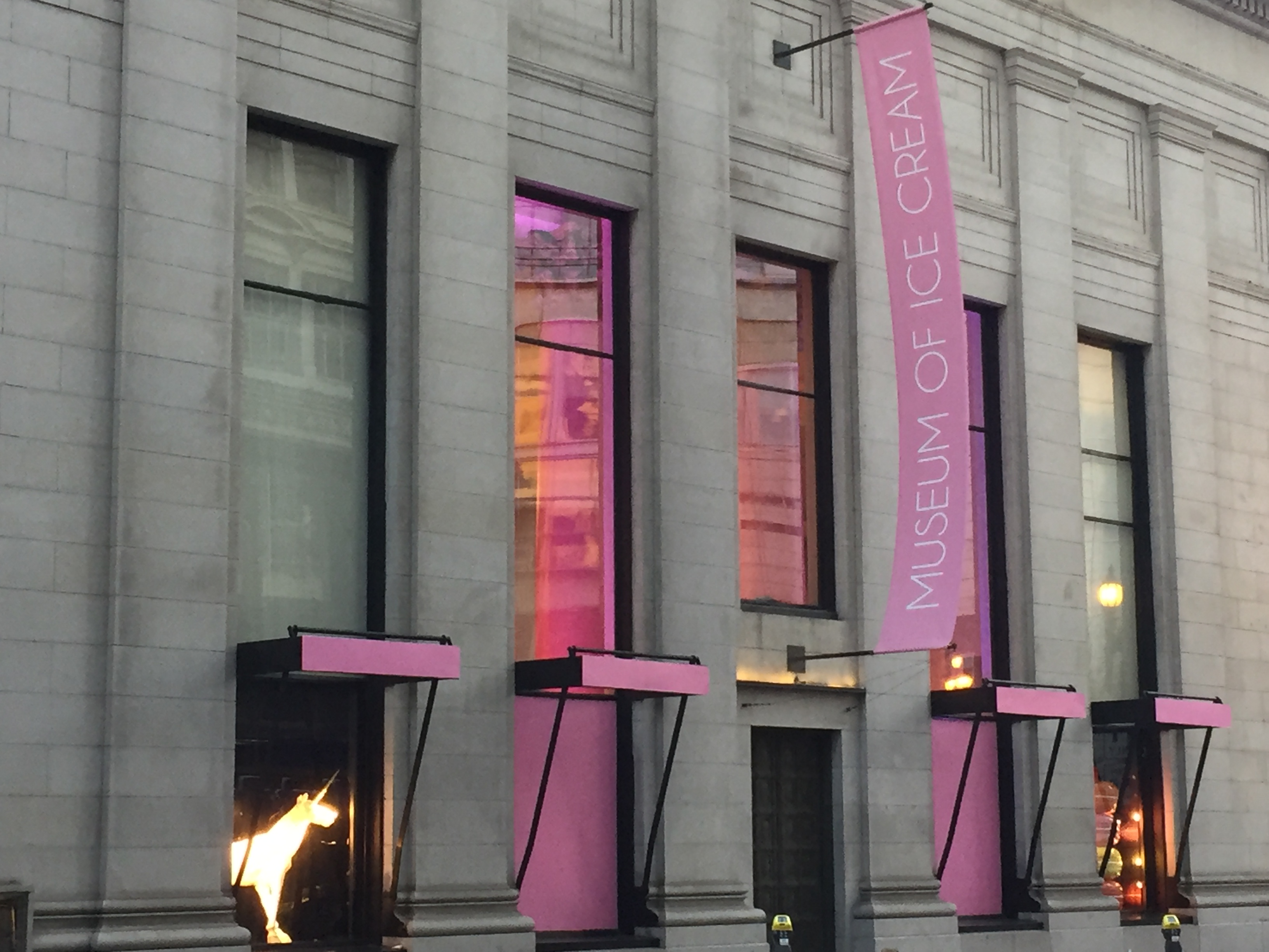 Museum of Ice Cream, San Francisco